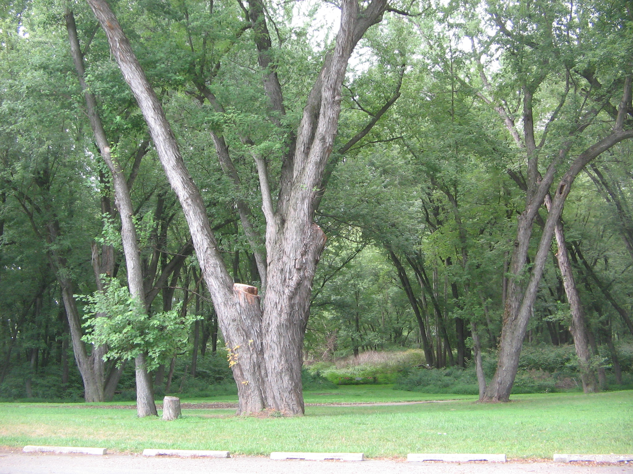 Trees in northern part of Milton State Park, in Milton, Pennsylvania, United States